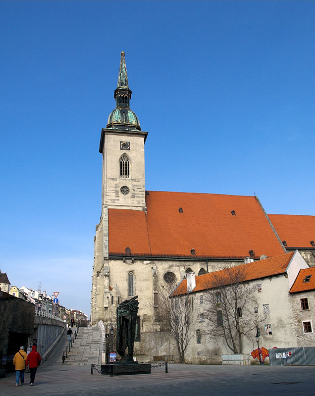 St. Martin's Cathedral in Bratislava.